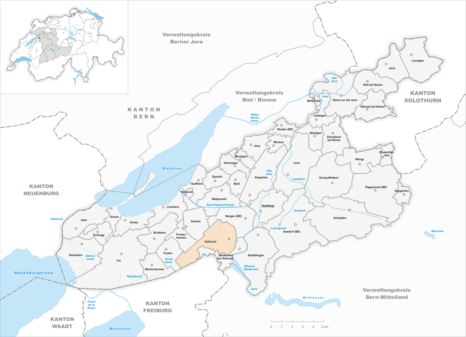 Municipality Kallnach